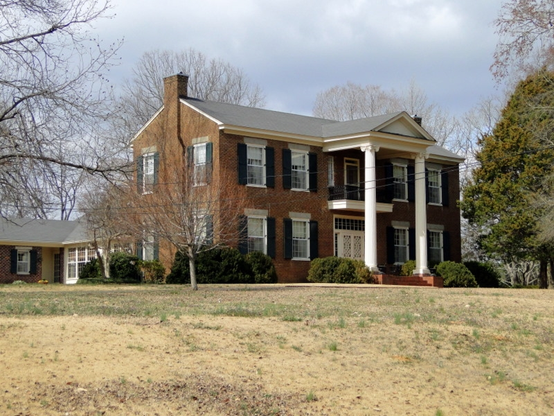 Idlewild was build by William Blount McClellan in 1843. He was born on January 22, 1798 in Knox County, TN and died on October 11, 1881 in Talladega County, Alabama. William McClellan married Martha Thompson Roby (b. November 18, 1809, Georgia, d. January 30, 1858, Talladega County, Alabama) on June 30, 1825 and together they had 16 children. After settling with his family in Talladega County, he established the plantation of Idlewild and built a beautiful brick home that stands today. William B. McClellan was a graduate of West Point, a brigadier-general of local Alabama militia, and later a colonel in the C. S. Army. It is now the home of Mary Elizabeth Jones McGehee.